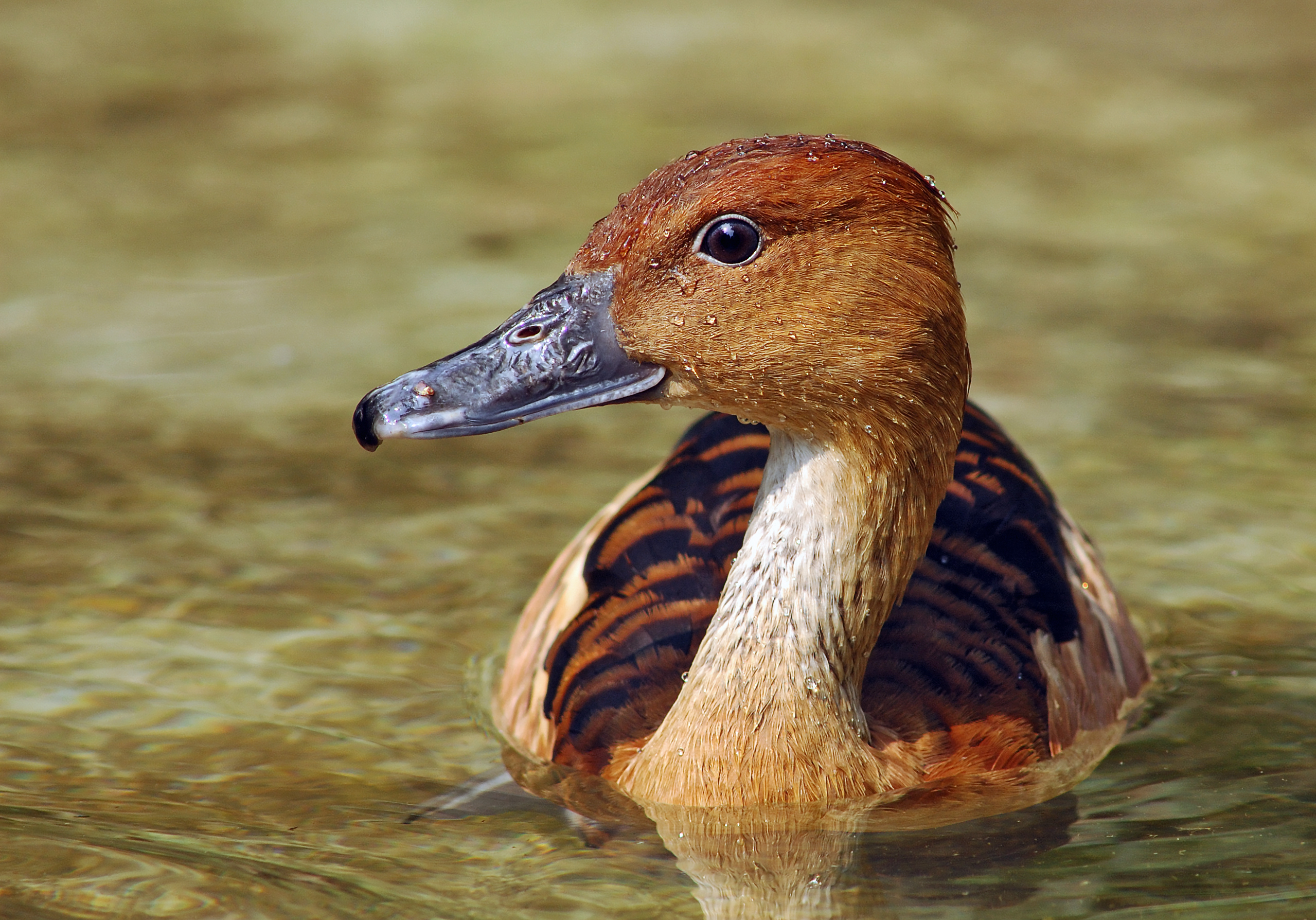 A swimming Fulvous whistling duck (Dendrocygna bicolor)